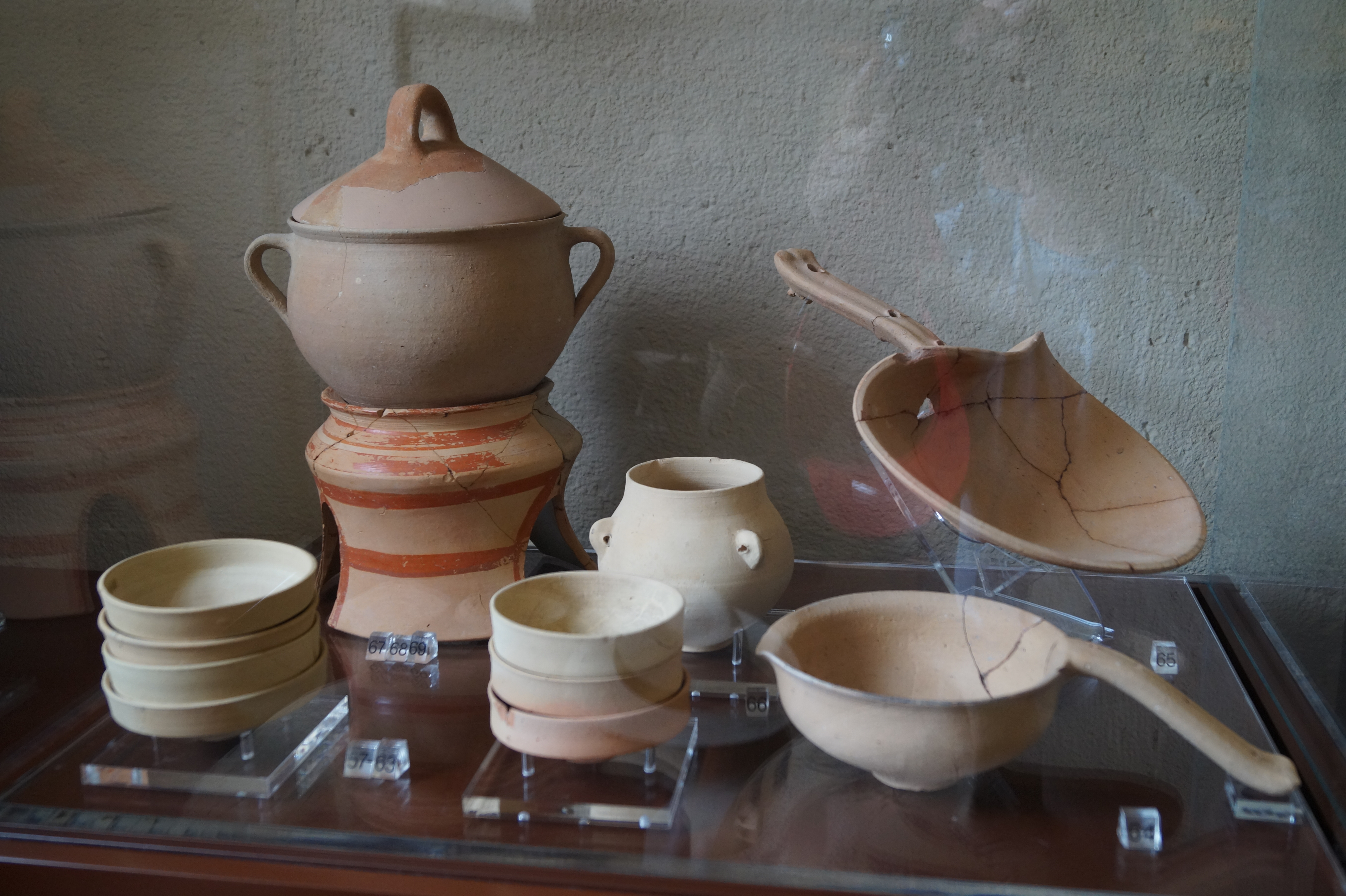 Archaeological Museum of Corinth, Corinthia, Greece: Mycenaean pottery from house B in Zygouries. (LH III B, 1300-1180 BC)